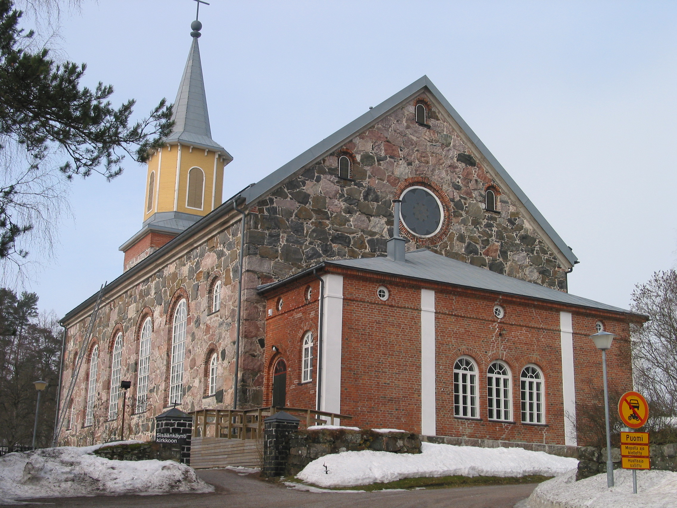 Karjalohja Church, Karjalohja, Finland